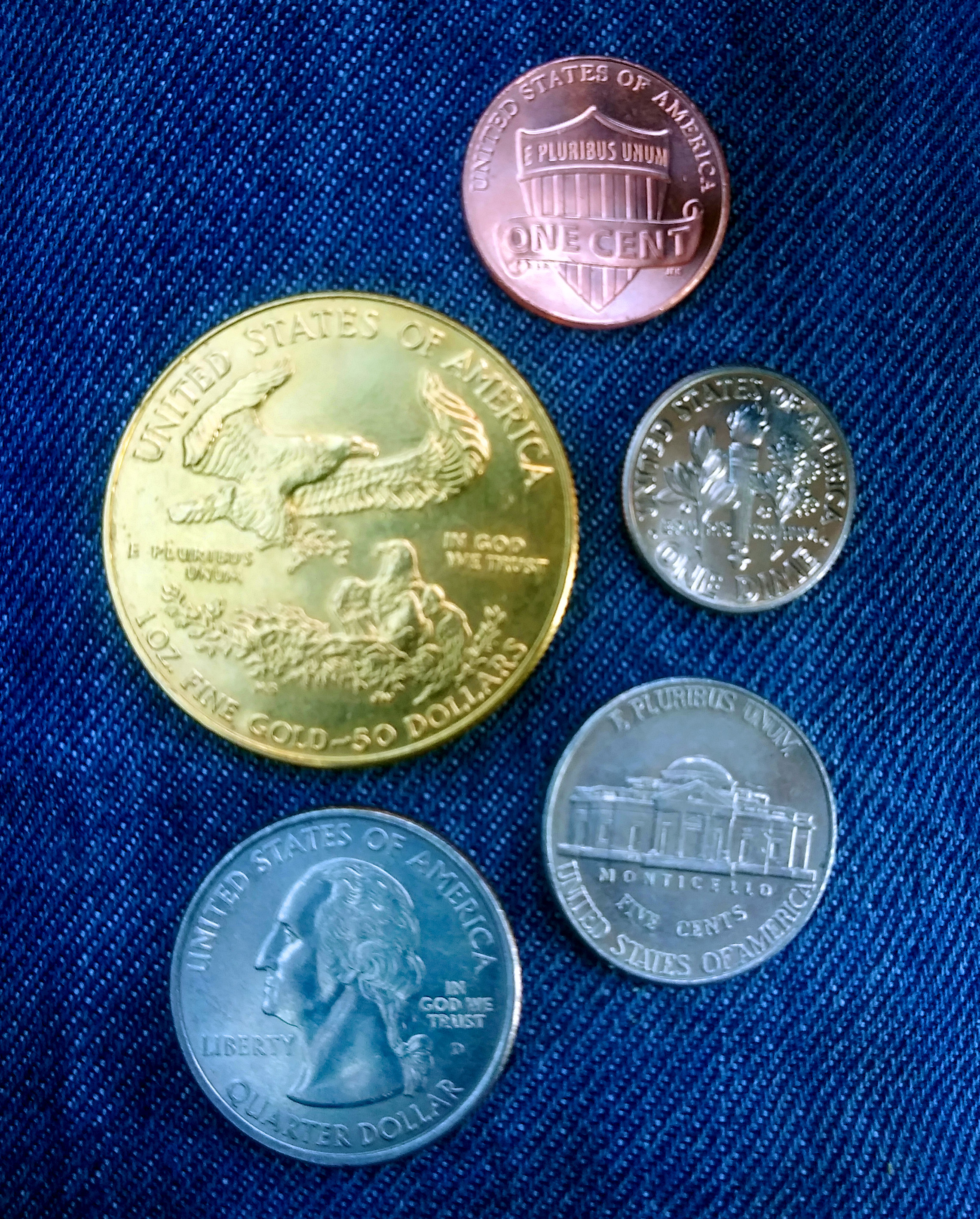 A 1oz US Gold Eagle pictured with several "standard" coins.